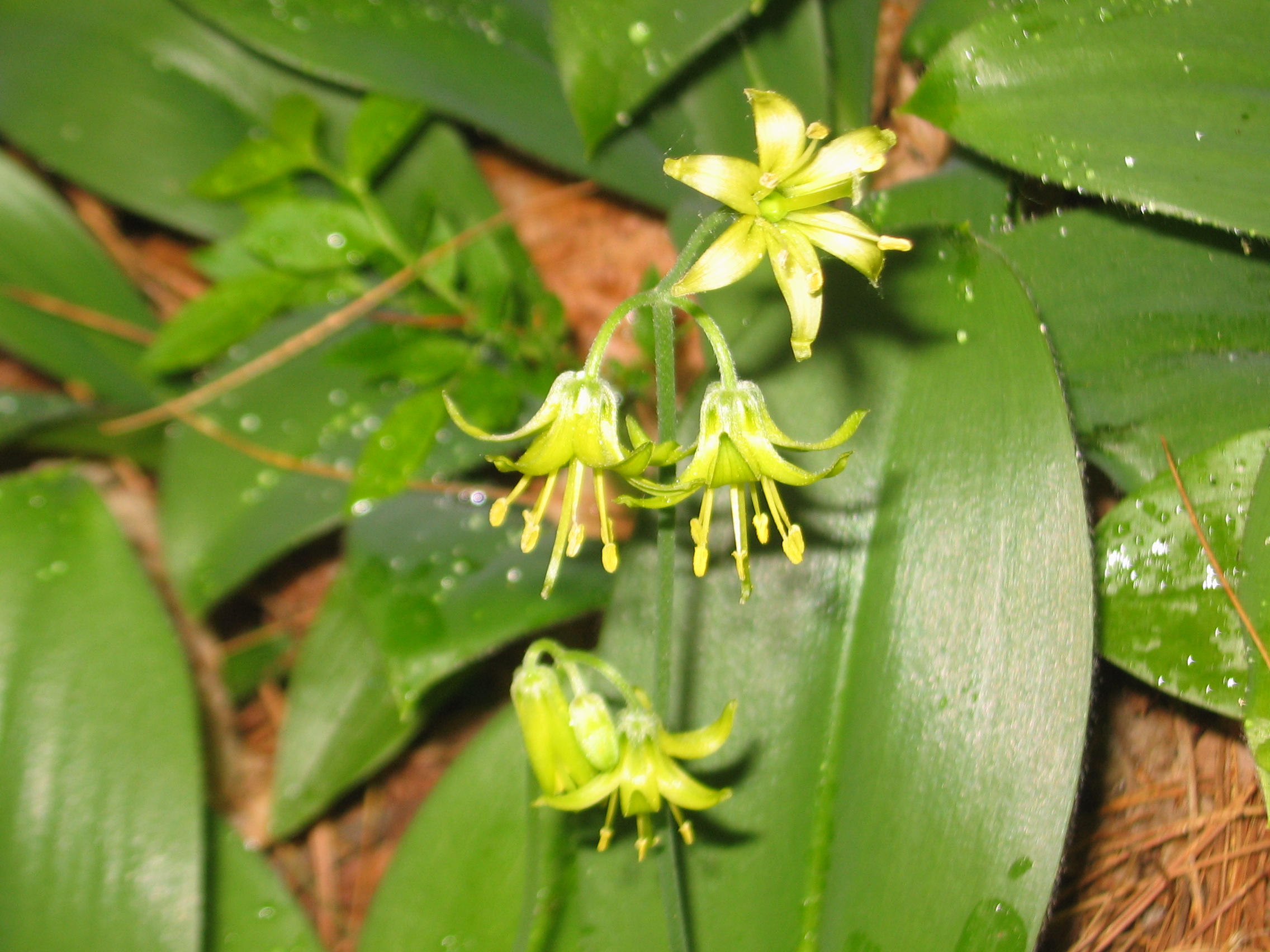 Photo of Clinonia borealis. Monocot, with six green petals and long stamens.